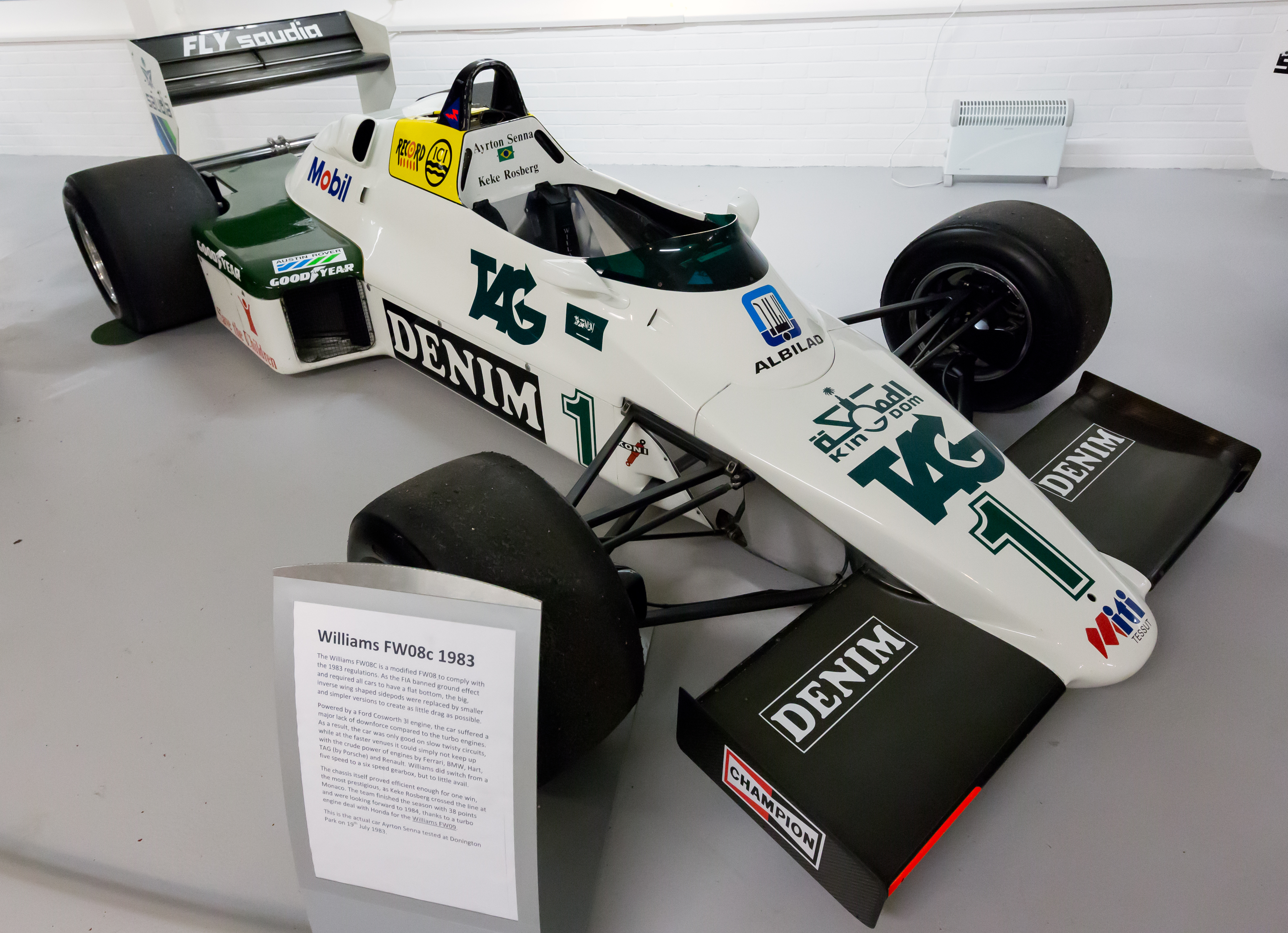 1983 Williams FW08C